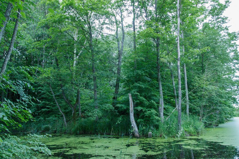 Norica Park